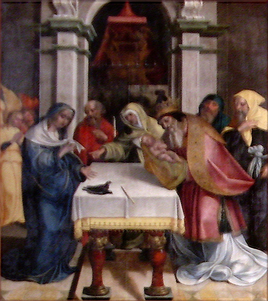 Panel from the altarpiece from the Mosteiro da Trindade